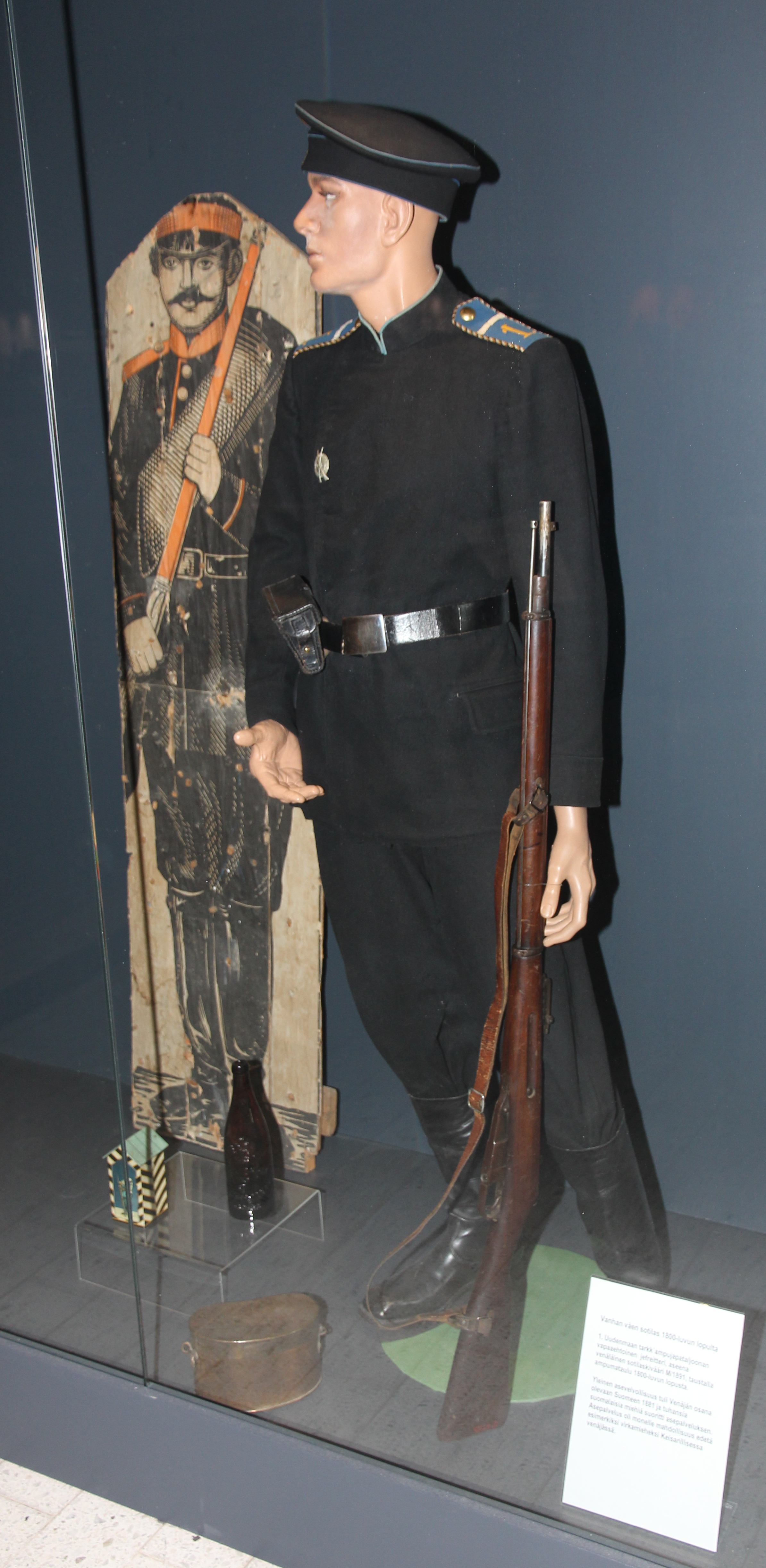 Military of the Grand Duchy of Finland uniform from late 19th century. Jefreitteri from Suomen 1. Uudenmaan Tarkk'ampujapataljoona armed with Mosin-Nagant M/1891 rifle. A 19th century rifle target on the background.